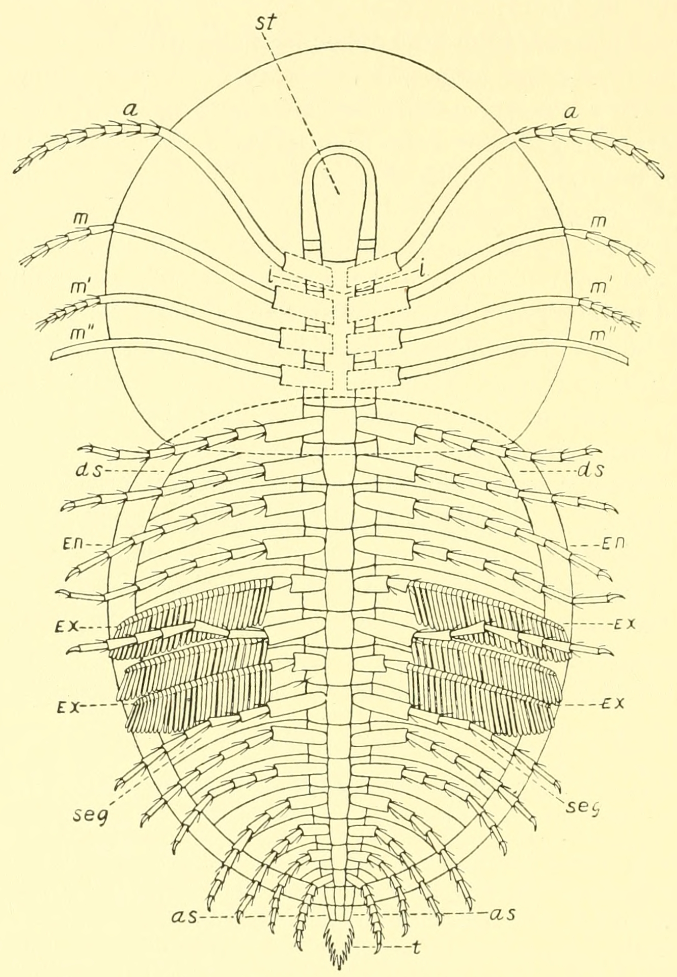 Smithsonian Miscellaneous Collections, Volume 85, Number 3, Figure 1 (on page 10): Original description: Fig. 1.—Naraoia compacta Walcott. a, antennae; as, anal segment; ds, reflex margin of posterior carapace; en, endopodite; ex, exopodite; i, intestine; m, mandible; m', maxilla; m , maxillula; seg, segmented posterior carapace; st, stomach; t, telson. (About ✕ 5.) Diagrammatic outline of ventral view of appendages, etc.